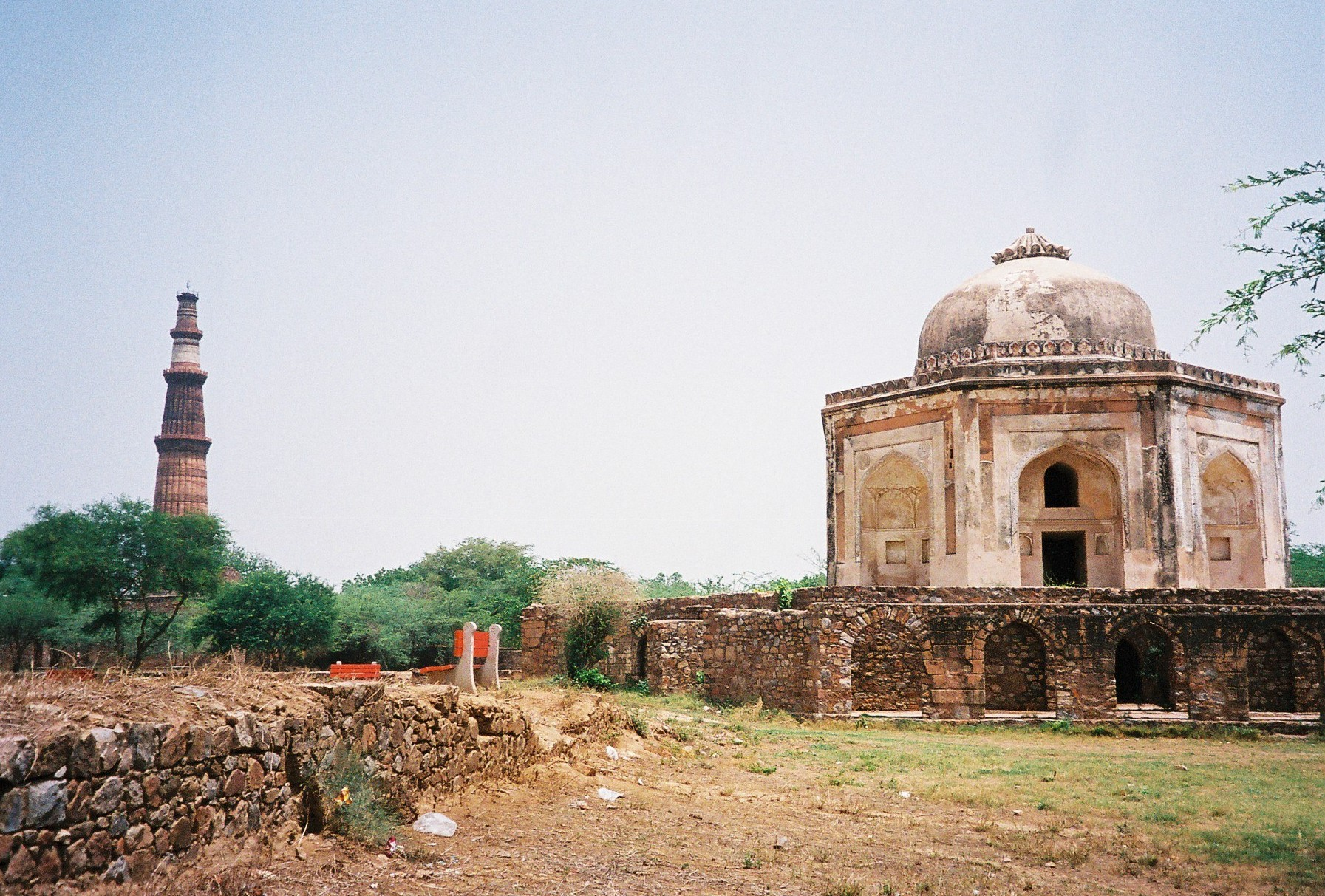 Metcalfe's Dilkusha with Qutub Minar in the background